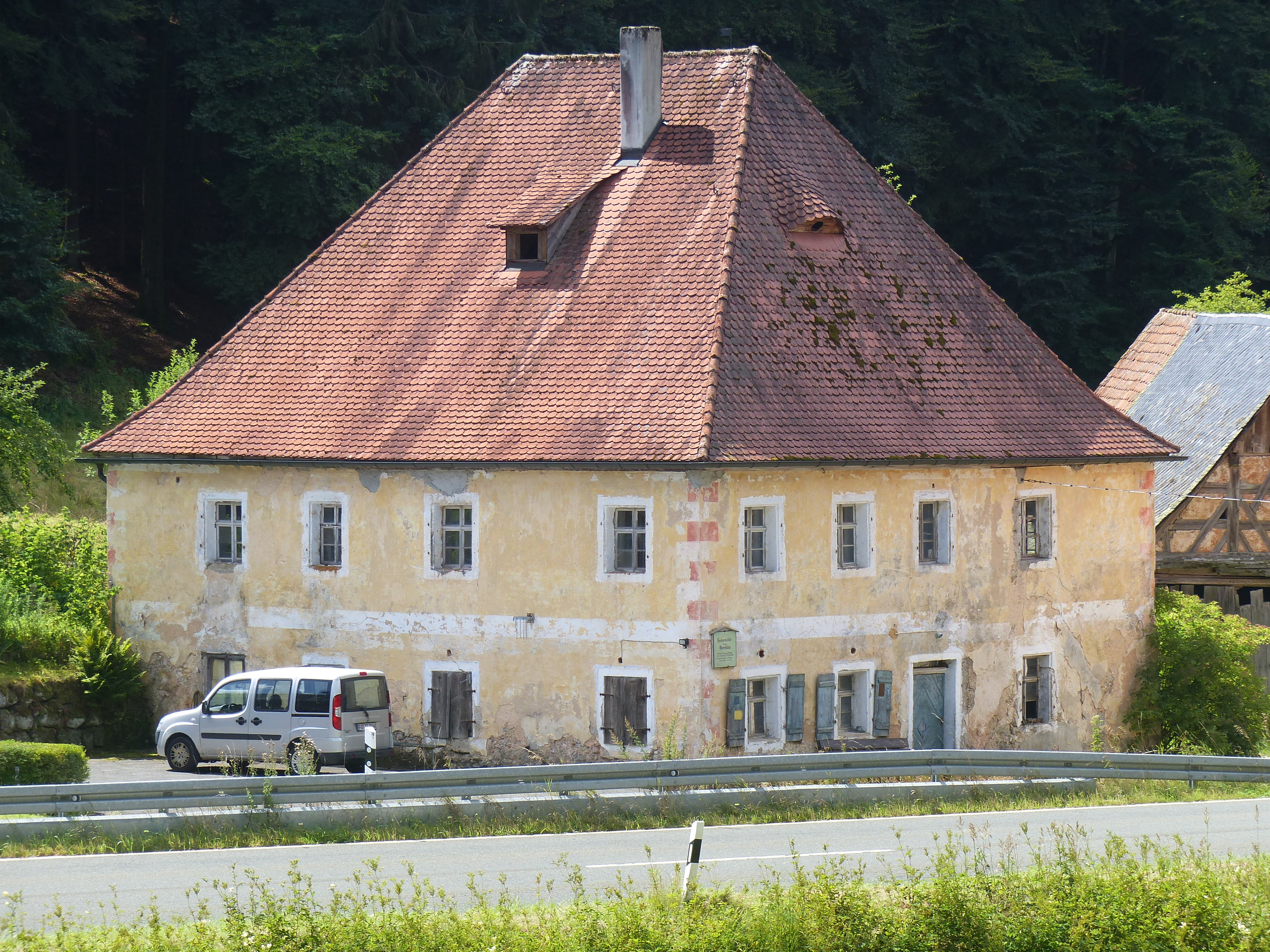 The main building of the Hackermühle, a district of the municipality of Obertrubach.